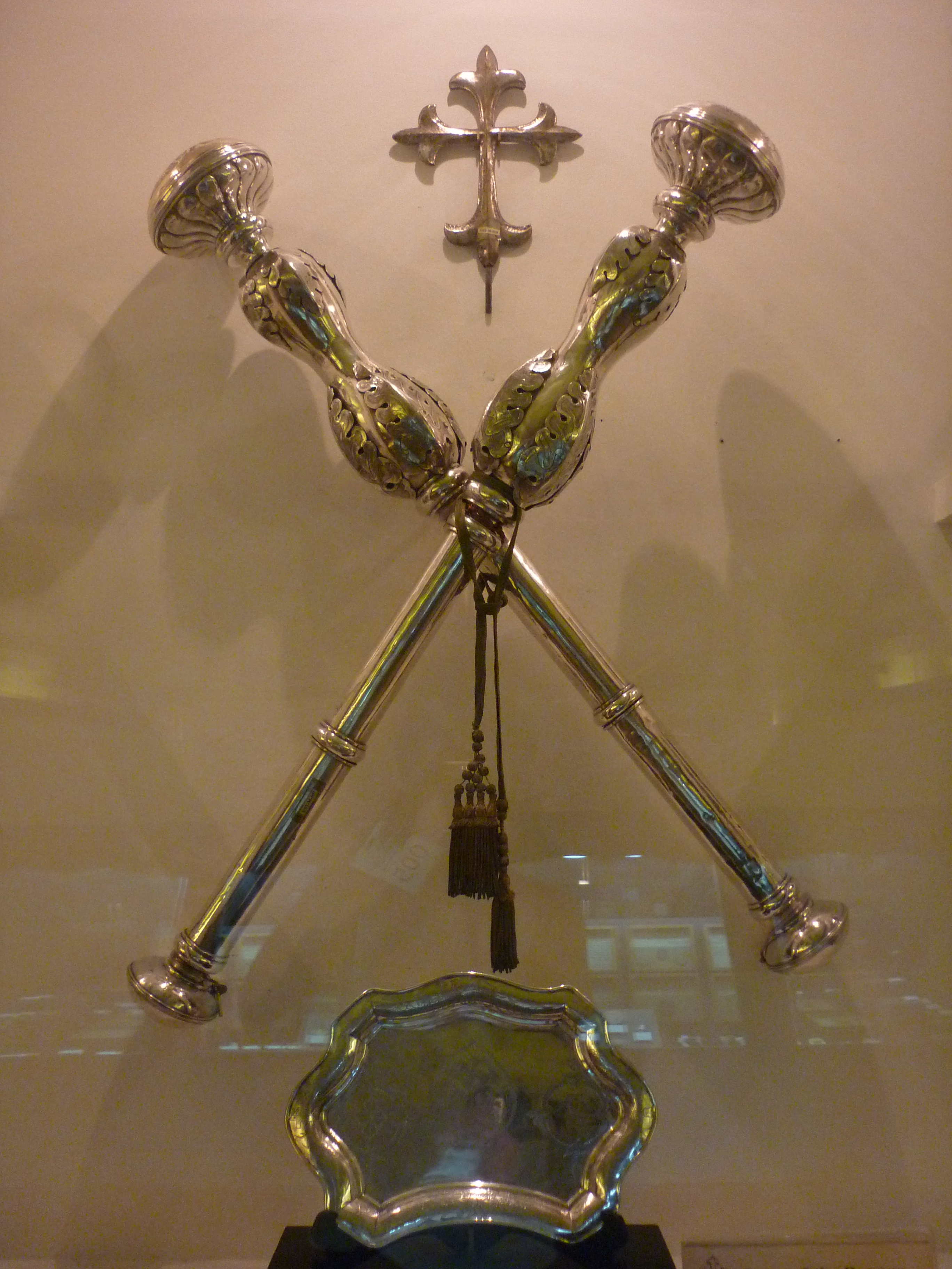 from the UST Museum. Photo courtesy of John P. Arcilla